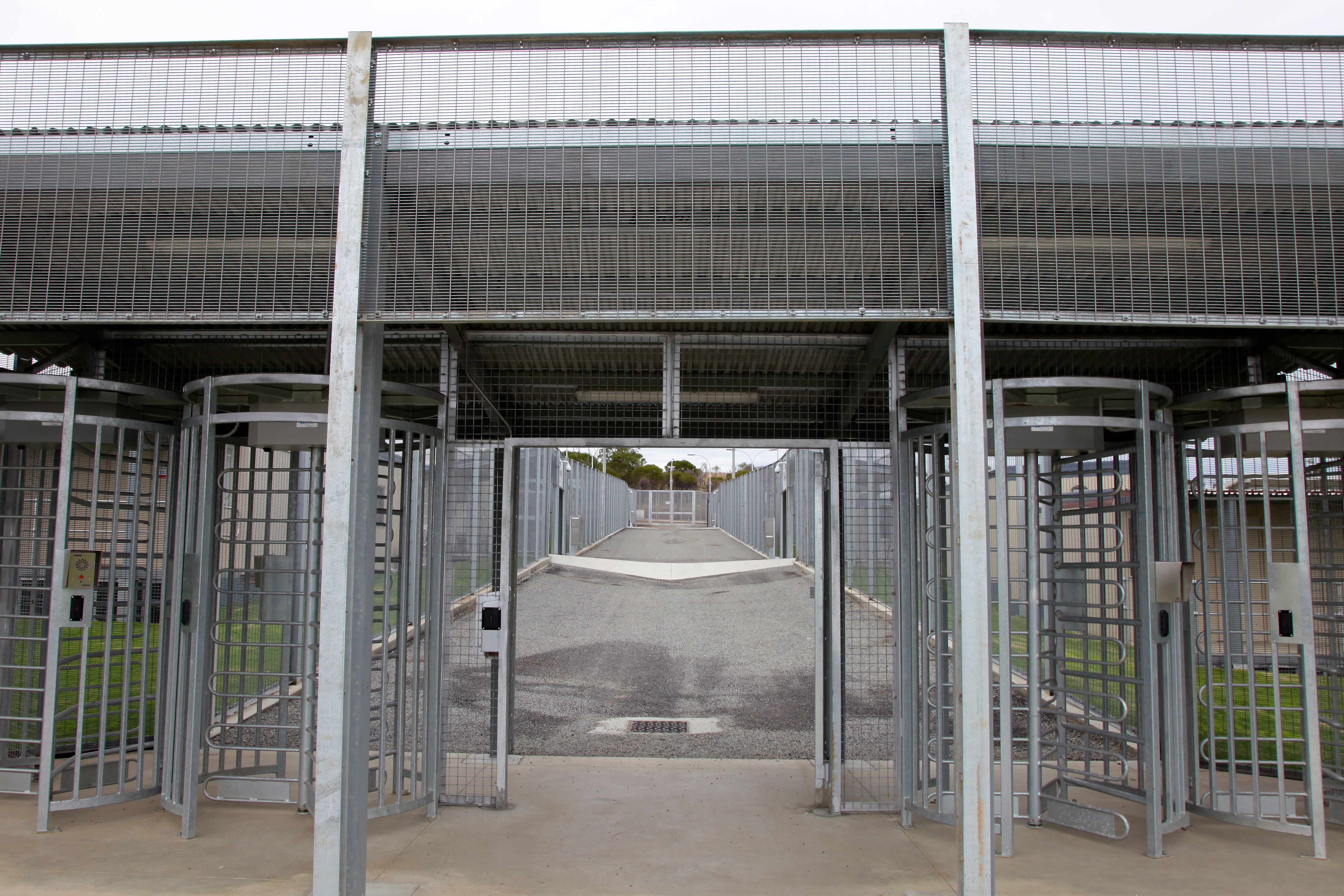 Yongah Hill Immigration Detention Centre